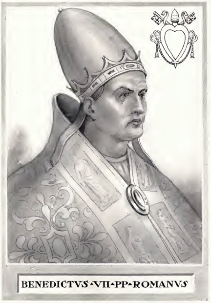 This illustration is from The Lives and Times of the Popes by Chevalier Artaud de Montor, New York: The Catholic Publication Society of America, 1911. It was originally published in 1842.